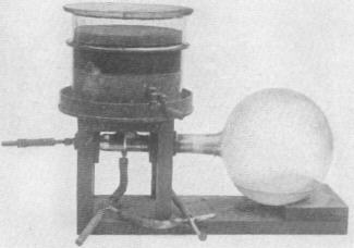 Cloud chamber by CTR Wilson